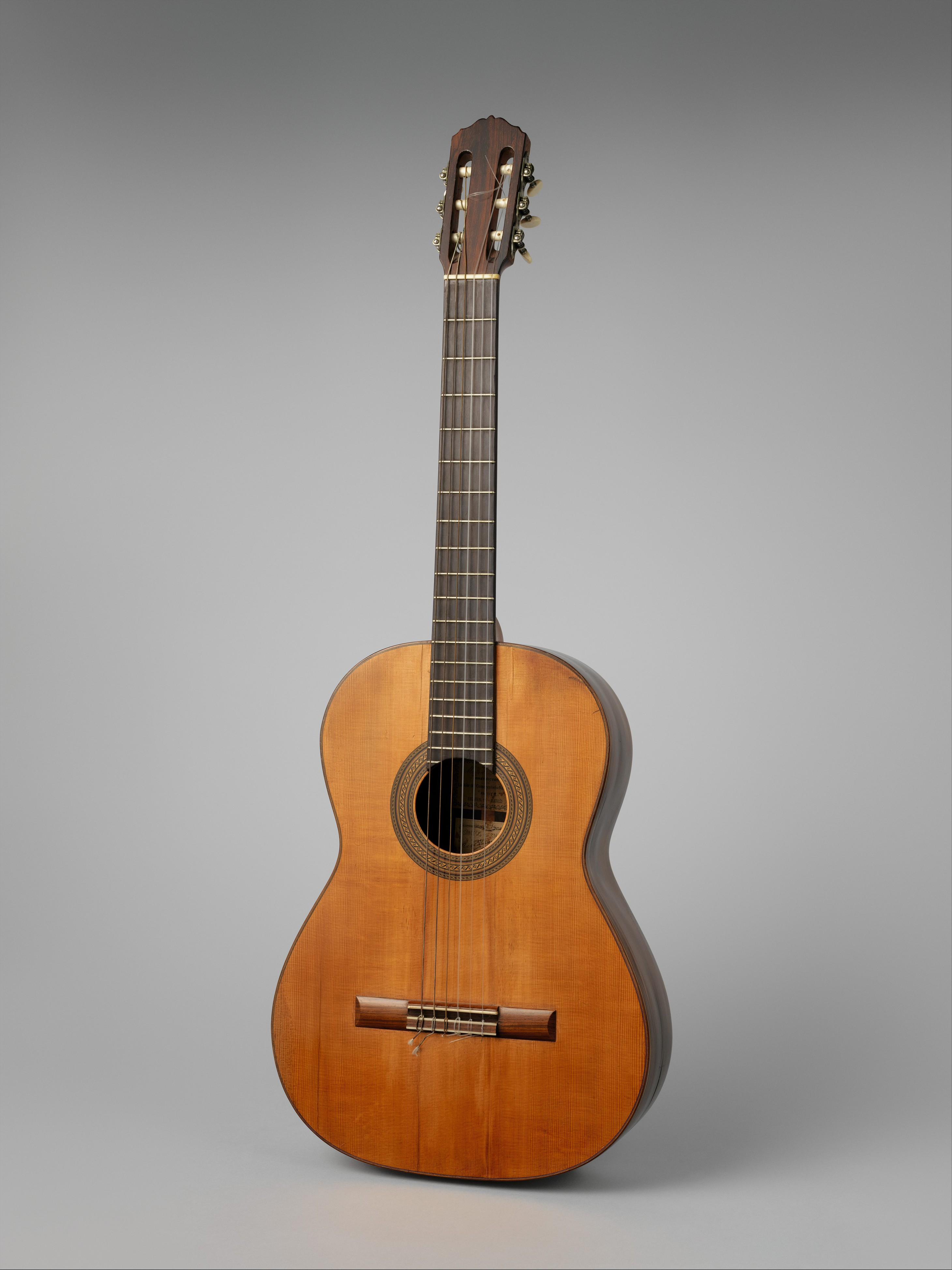 Spanish; Guitar; Chordophone-Lute-plucked-fretted